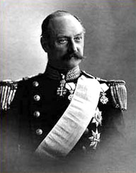 Photo of King Frederick VIII of Denmark (King 1906-1912). The subject of this image died 1912. Source: [1]